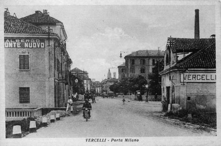 Vercelli, Porta Milano with tramway metals